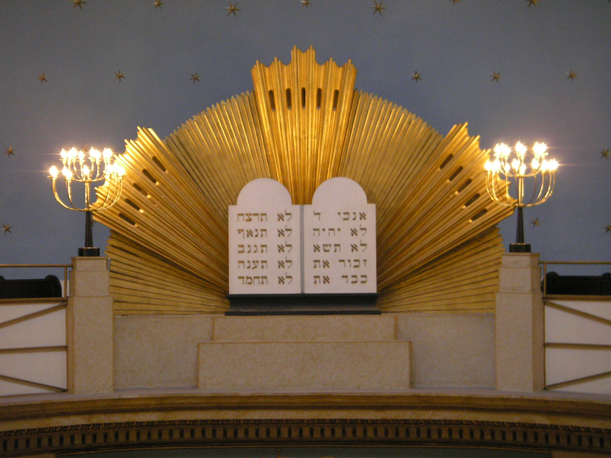 Decalogue in the Stadttempel in Vienna.